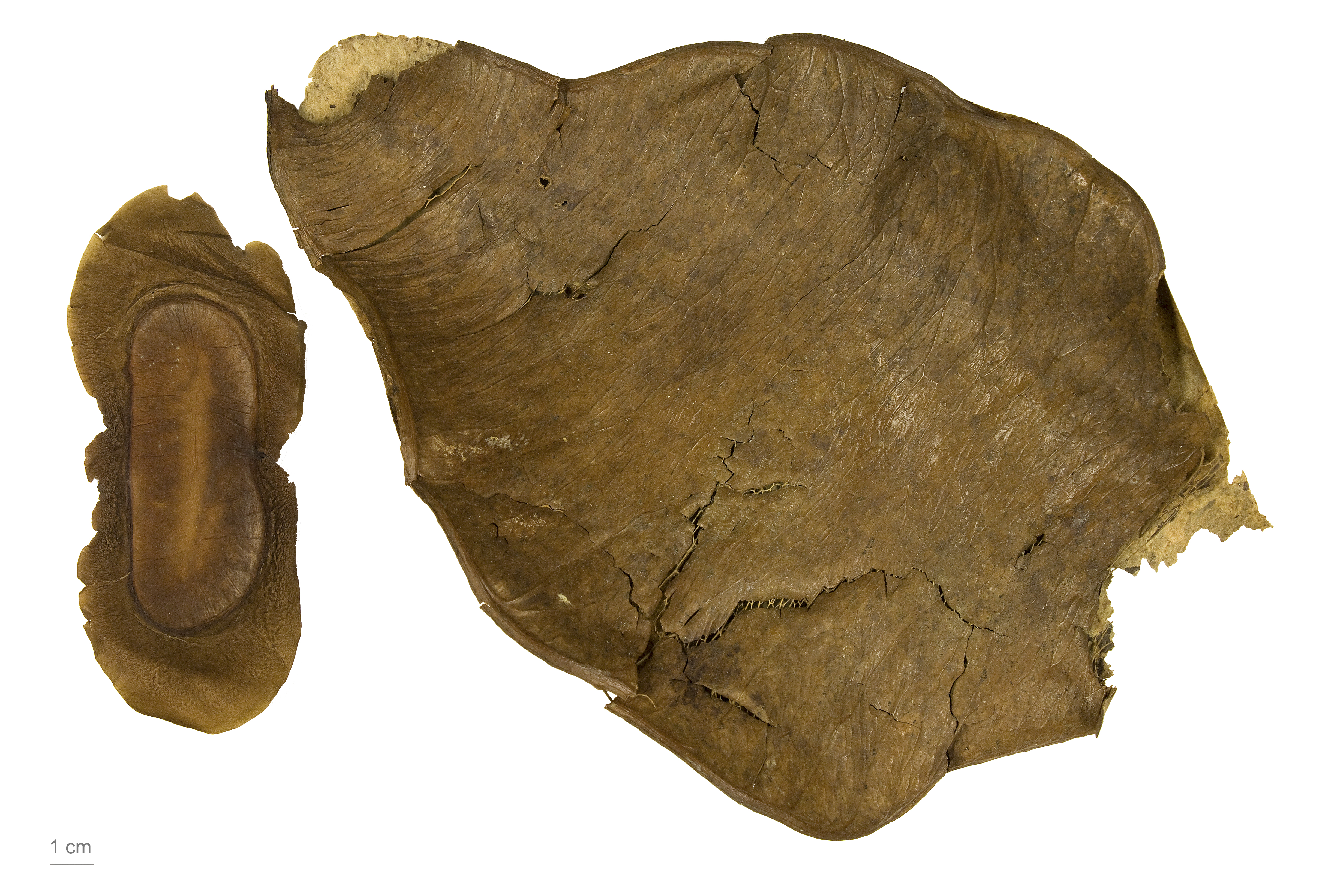 Fillaeopsis discophora, fruits and seeds